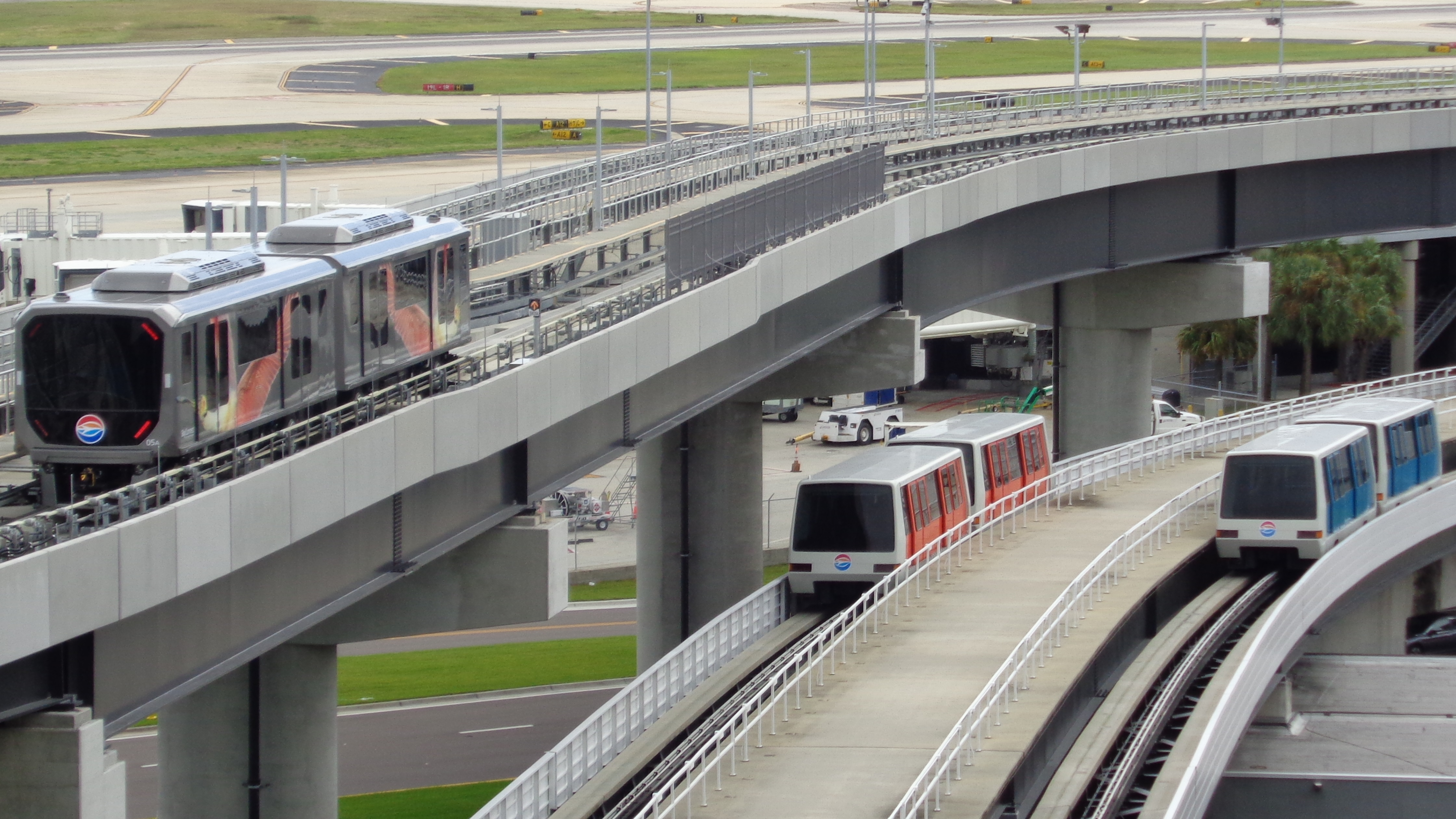 Tampa International Airport in Tampa, Florida.